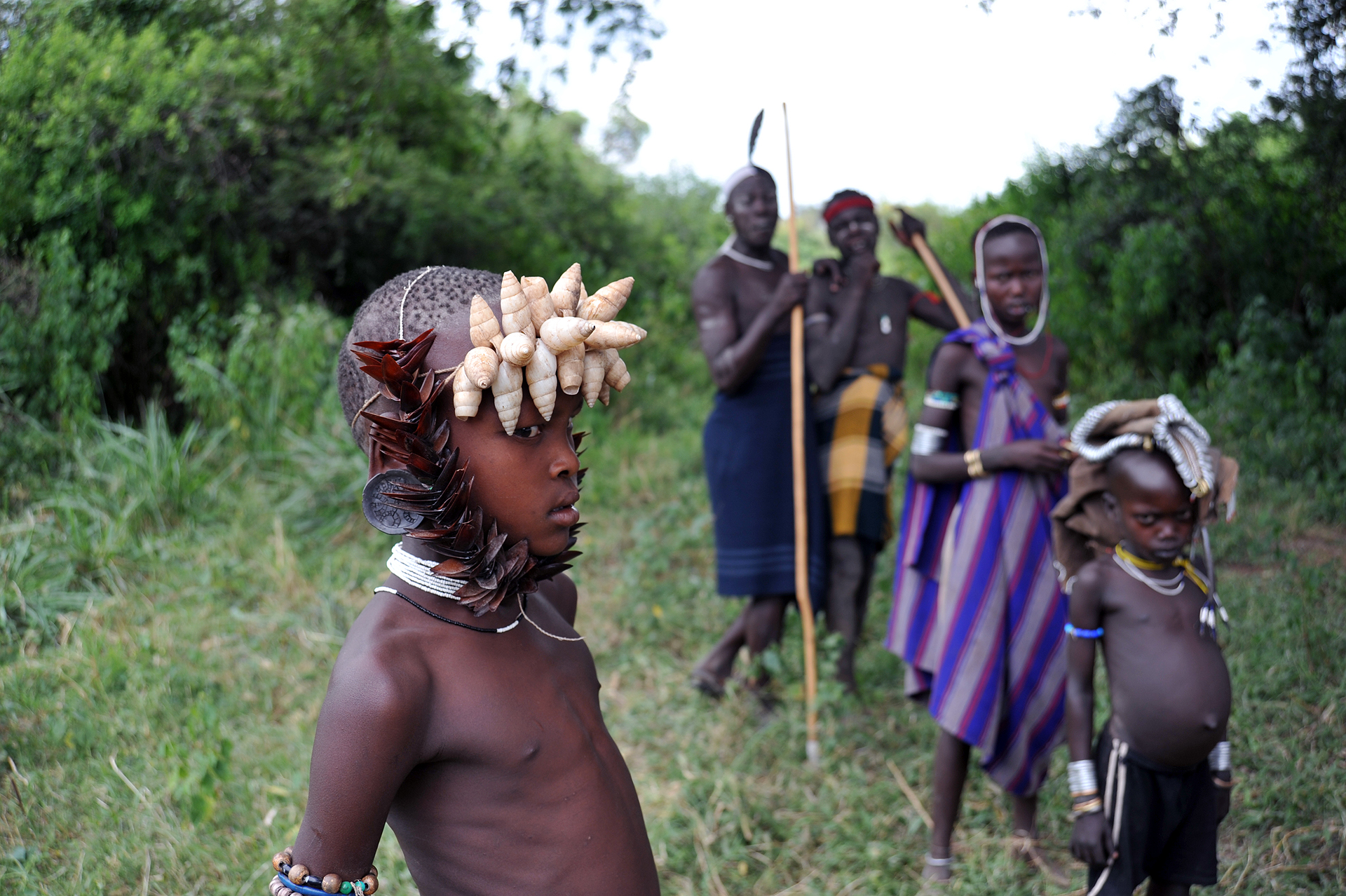 People and places in the Omo Valley, Ethiopia.